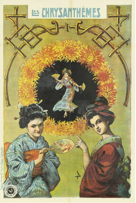 Poster for 'Les Chrysanthèmes', a movie released in 1907 by Pathé Frères and directed by Segundo de Chomón.